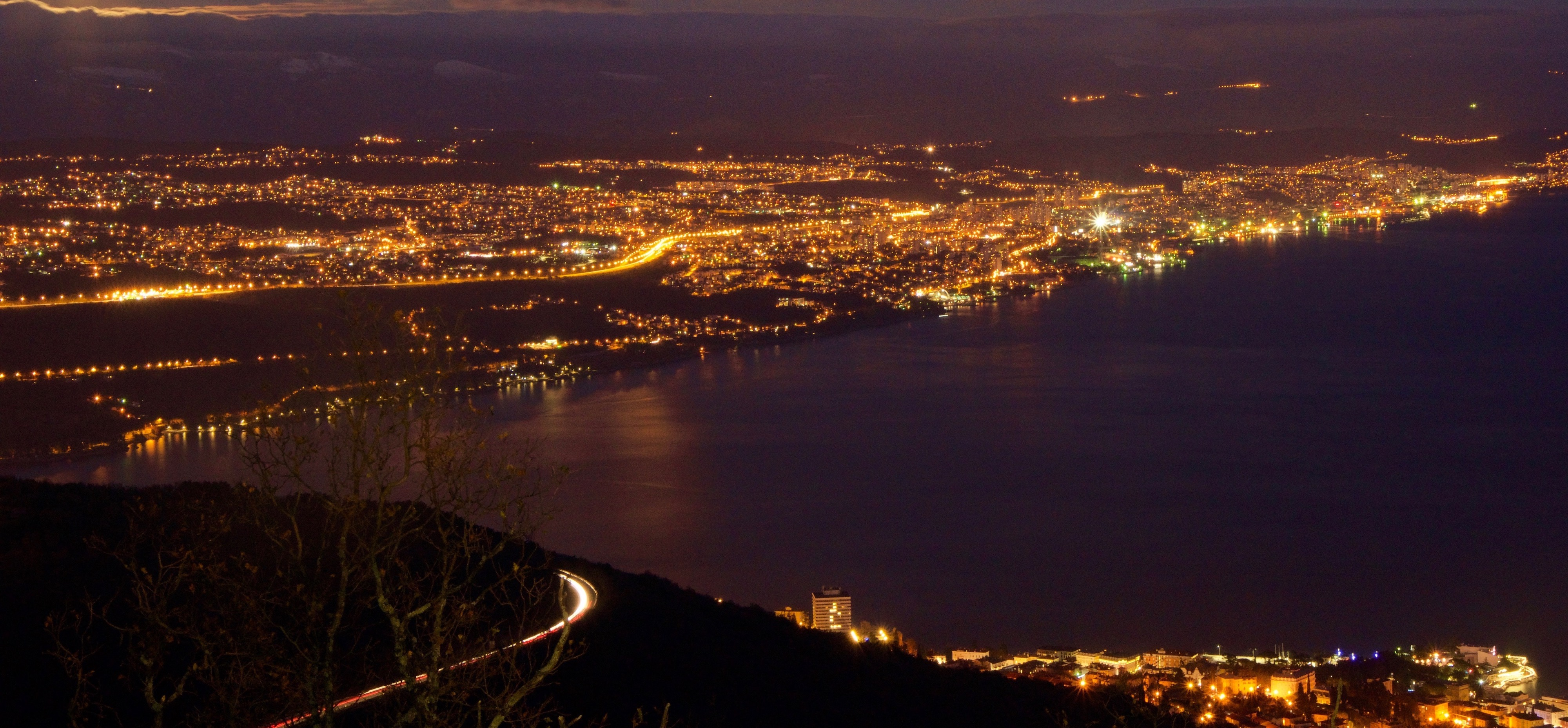 Rijeka at night